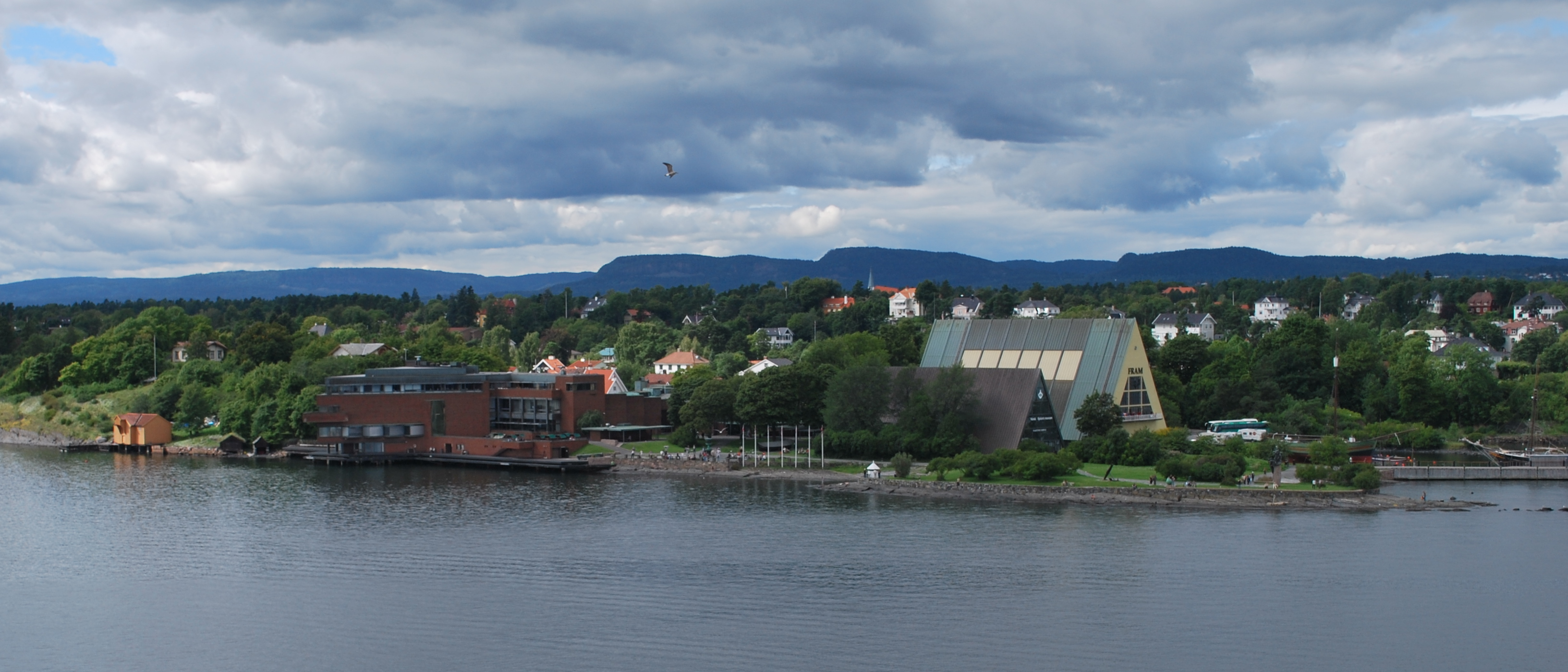 Fram Museum (right) and Norwegian Maritime Museum (Norw. Norsk Sjøfartsmuseum) (left), Bygdøy, Oslo